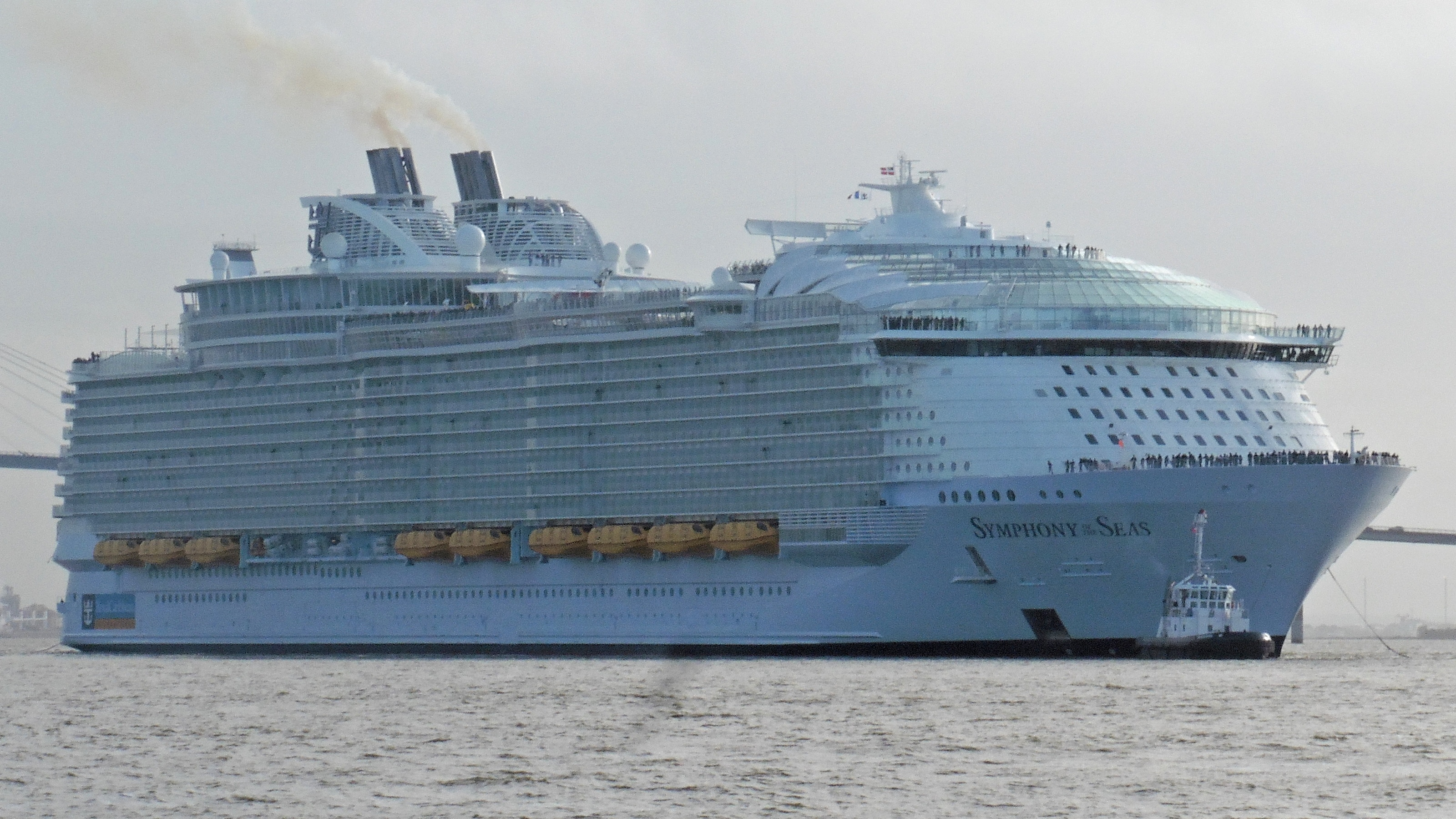 Symphony of the Seas leaving St Nazaire on March 24th 2018